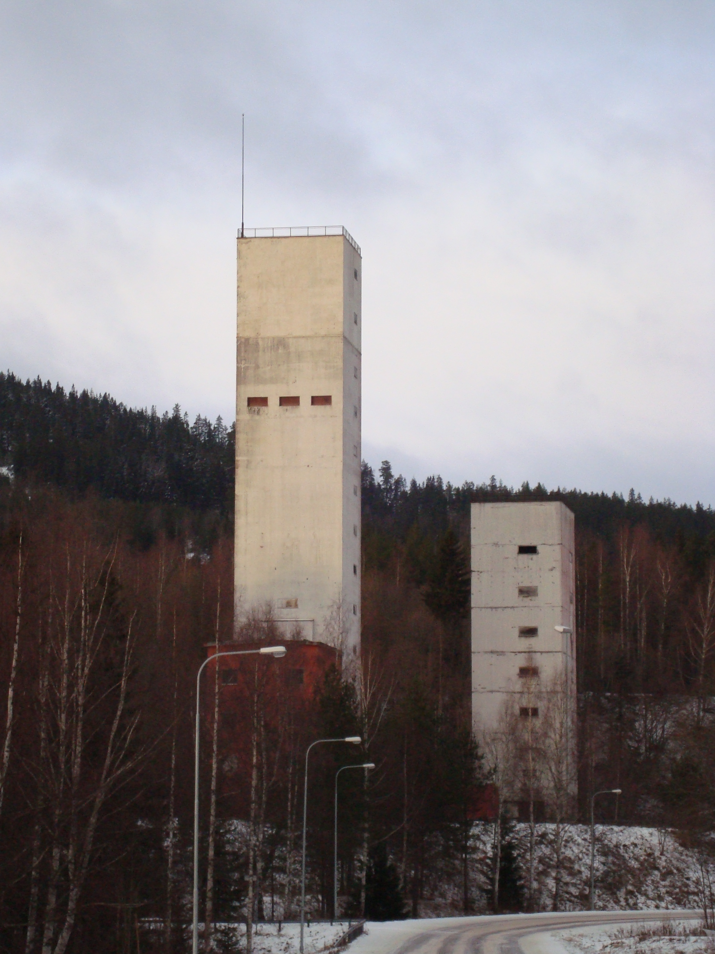 Remains of the iron mine in Idkerberget, Borlänge municipality, Sweden